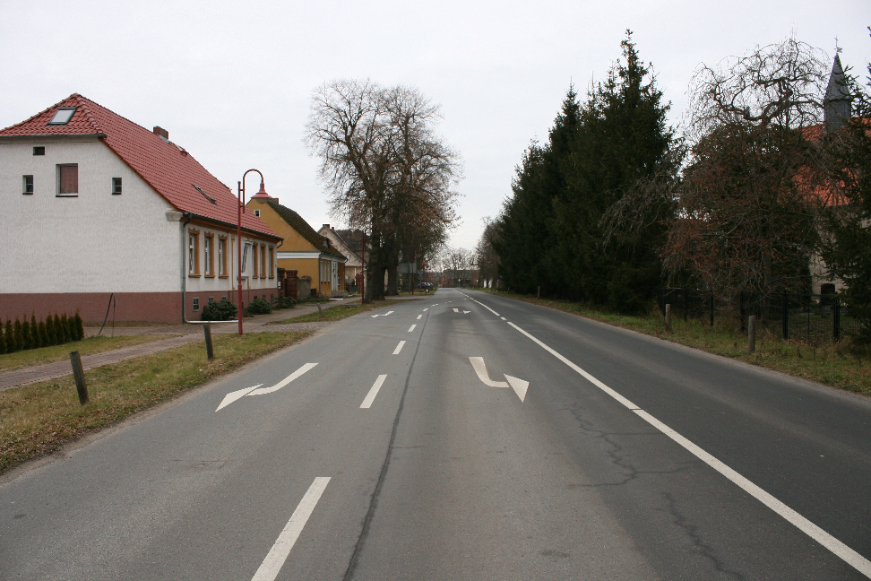 Barnewitz in Brandenburg, Germany